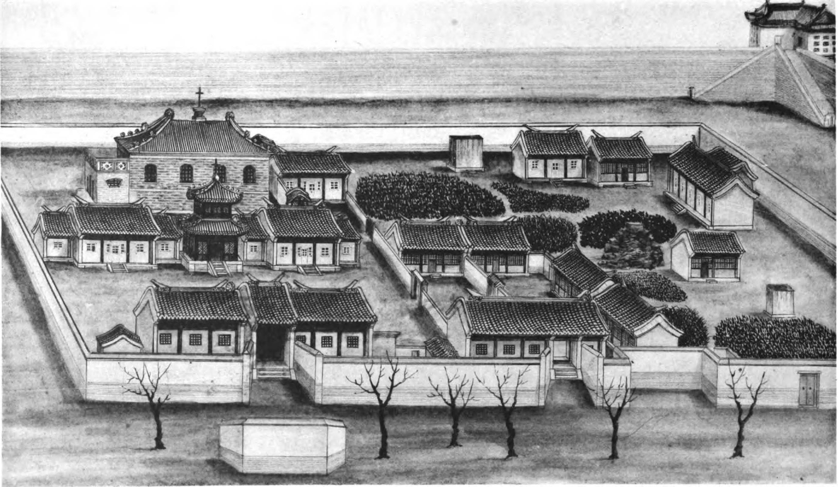 China's Earliest Orthodox Church Beiguan (Present day Russian Embassy)